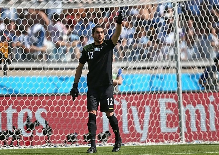 Iran and Argentina national football teams match, 2014 FIFA World Cup Group F